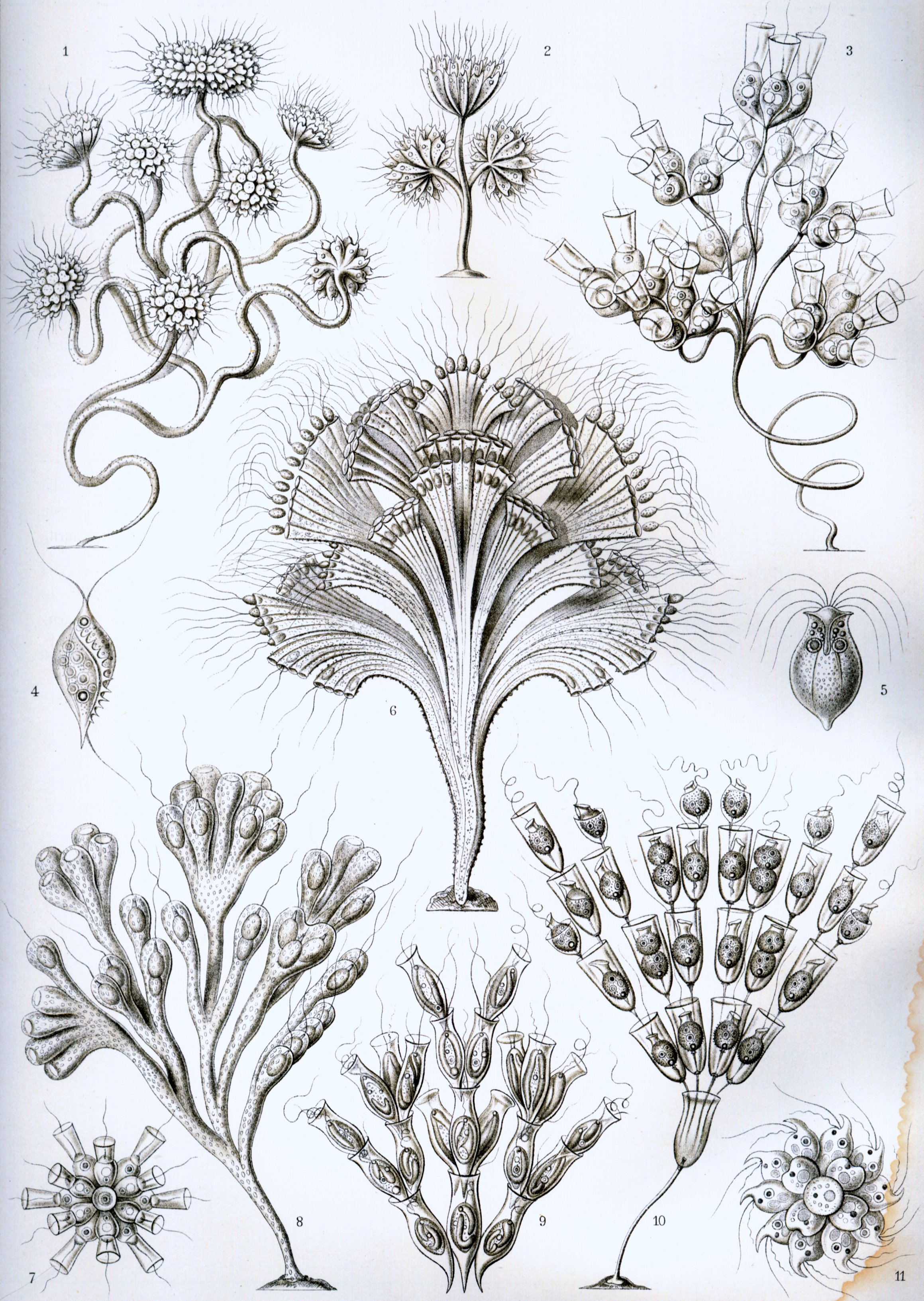 See image for index to numbers Anthophysa vegetans (Stein) = Anthophysa vegetans (O.F.Müller) Stein / Anthophysis vegetans (O.F.Müller) Stein Cephalothamnium cyclopum (Stein) = Cephalothamnium cyclopum Stein, 1878 Codonocladium candelabrum (Haeckel) = Codonocladium candelabrum Haeckel / Codonosiga sp.? Trichomonas intestinalis (Dujardin) = Trichomonas intestinalis Leuckart (See Trichomonas) Tetramitus rostratus (Perty) = Tetramitus rostratus Perty (See Tetramitus) Rhipidodendron splendidum (Stein) = Rhipidodendron splendidum F.Stein (See Rhipidodendron) Codonosiga botrytis (Stein) = Codonosiga botrytis (Ehrenberg) Stein (See Codonosiga) Phalansterium digitatum (Stein) = Phalansterium digitatum Stein (See Phalansterium) Dinobryon sertularia (Ehrenberg) = Dinobryon sertularia Ehrenberg (See Dinobryon) Poteriodendron petiolatum (Stein) = Bicoeca petiolata (Stein) Pringsheim (See Bicoeca) Uvella glaucoma (Ehrenberg) = Uvella glaucoma (C.G.Ehrenberg) C.G.Ehrenberg? (See Uvella)